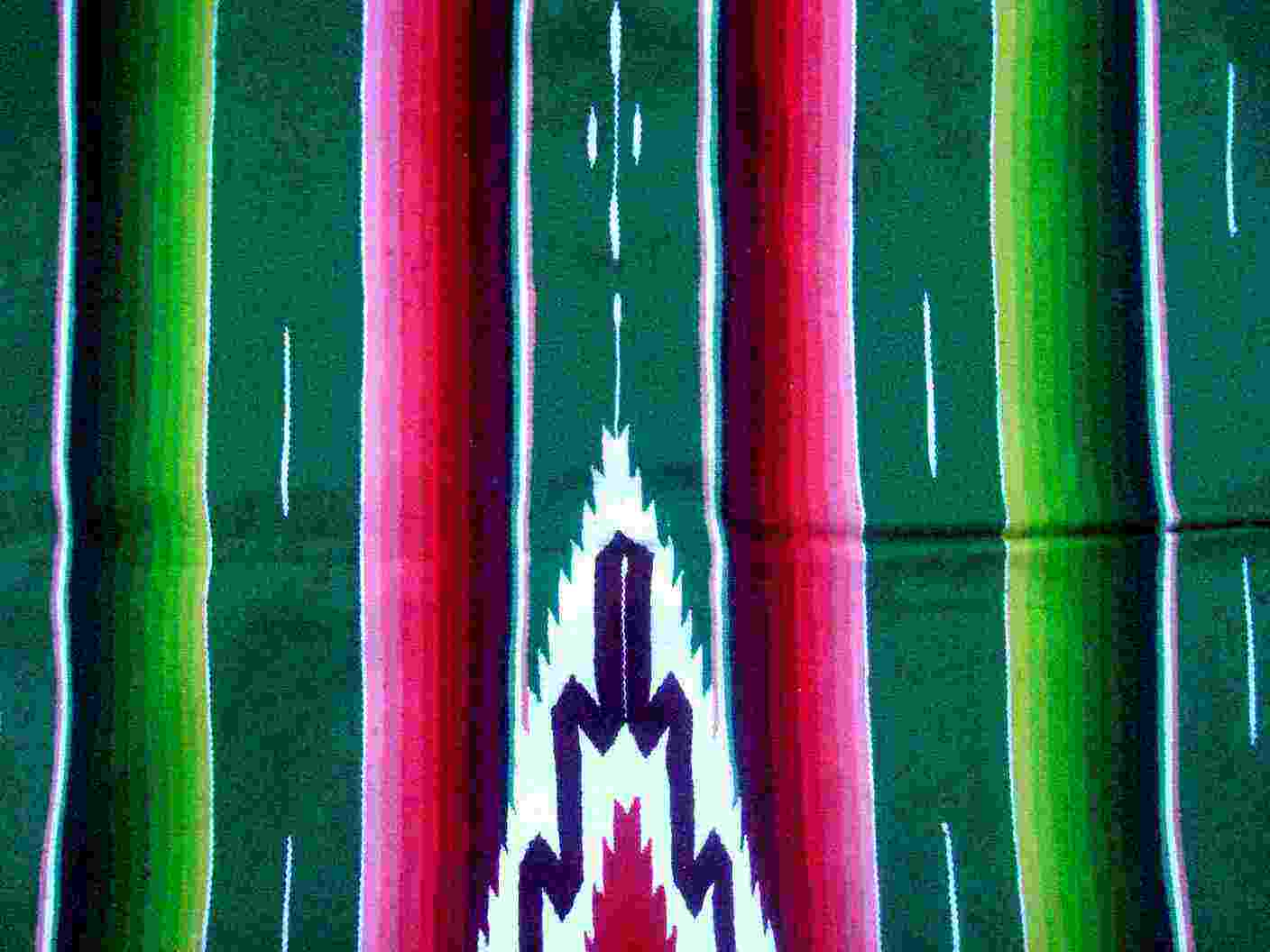 Zarape. Zarape Pattern. Traditional Clothing. Male Fashion. Textiles. Mexico. Free Licensed Material. I took the picture of a zarape I own. Picture to appear under Zarape in Spanish. "Categorías:Indumentaria".